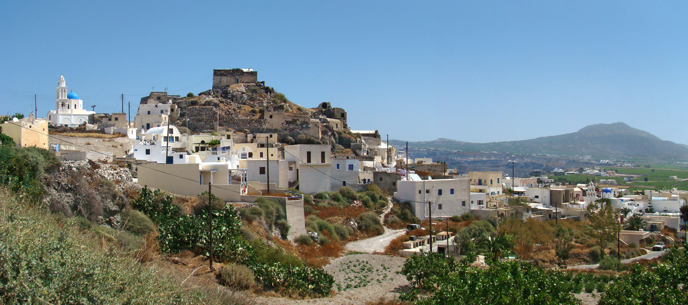 Akrotiri, Santorini, Greece.